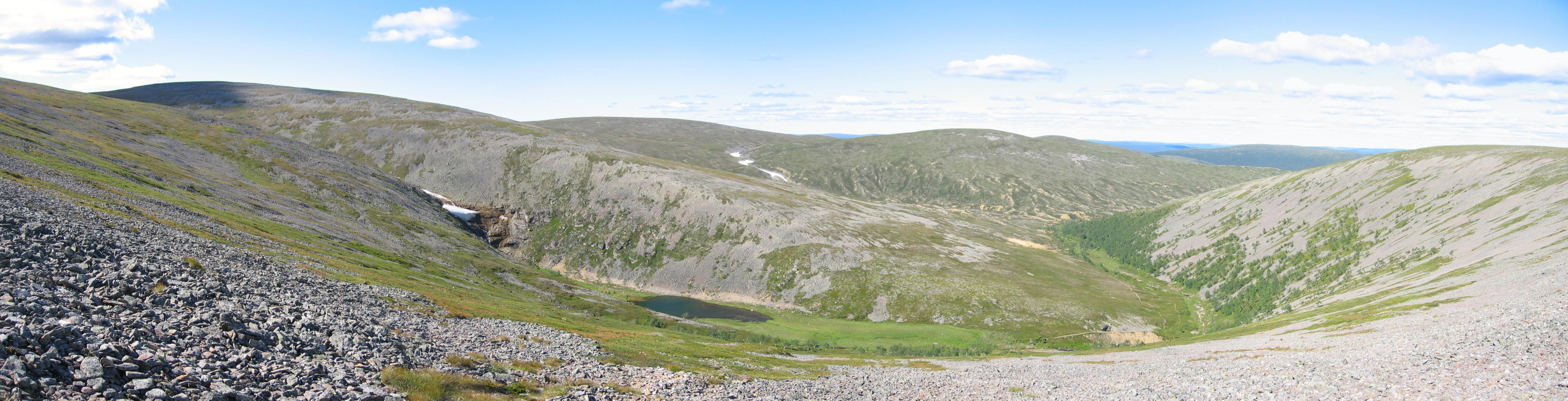 Panorama image of Paratiisikuru valley, waterfall and lake in summer. Picture taken from the top of Ukselmapää fell in Sodankylä, Finland. (Image taken from this site, facing west.)